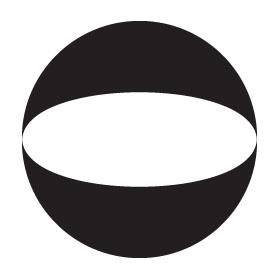 Logo used by The Syntheist Movement